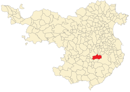 Quart